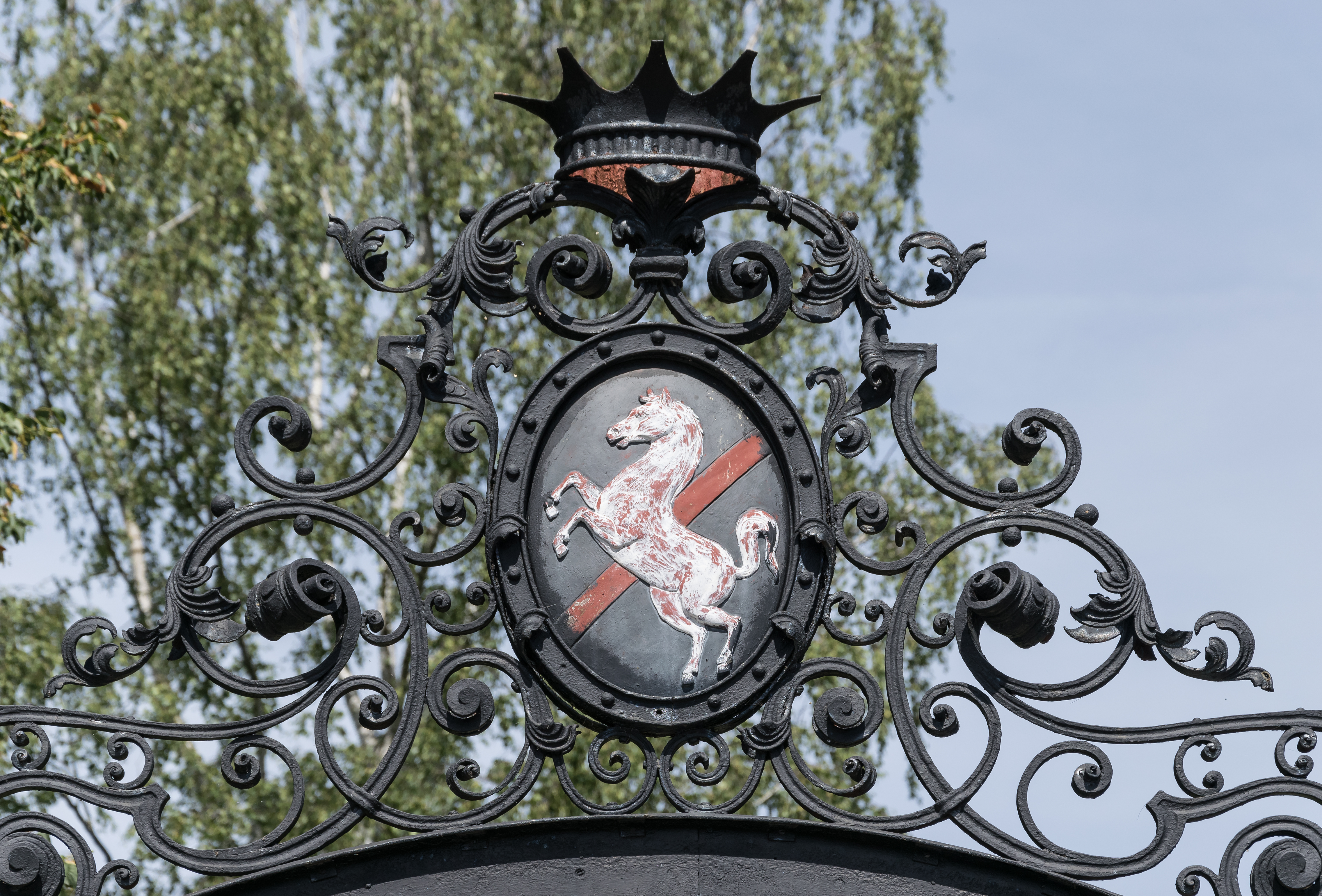 Park and palace in Jeleniów, coat of arms of Mutius family Wikidata has entry Q30048613 with data related to this item.